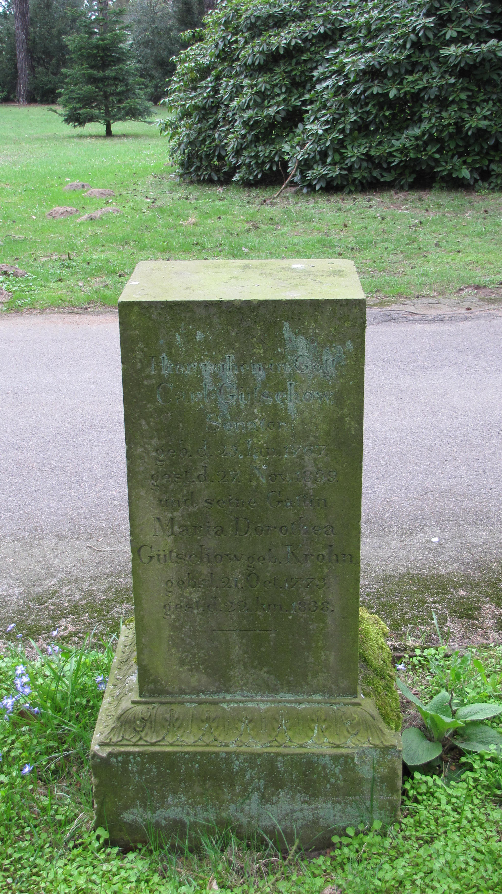 Vorwerker Friedhof Lübeck, historic gravestone of Senator Heinrich Albrecht Gütschow (1767-1839)